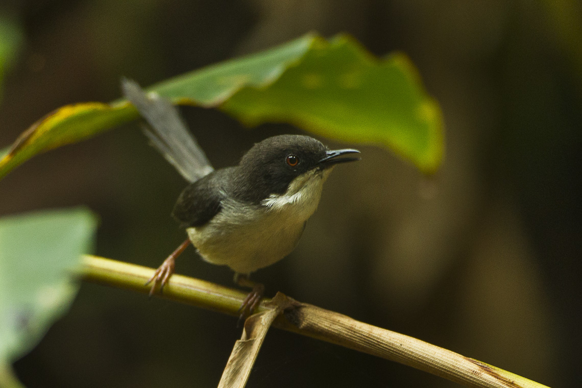 Black-headed Apalis - Malawi_S4E4723